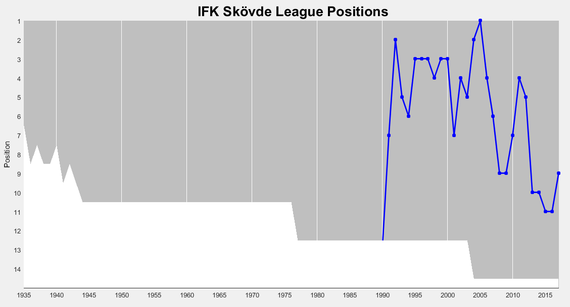 IFK Skövde positions in the top division. The grey area denotes the number of teams in the top division. For split seasons, the autumn positions are shown when the team did not play in the top division in the spring season.